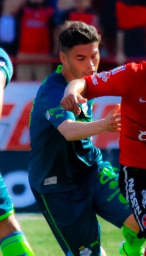 Mexican player Carlos Adrian Morales